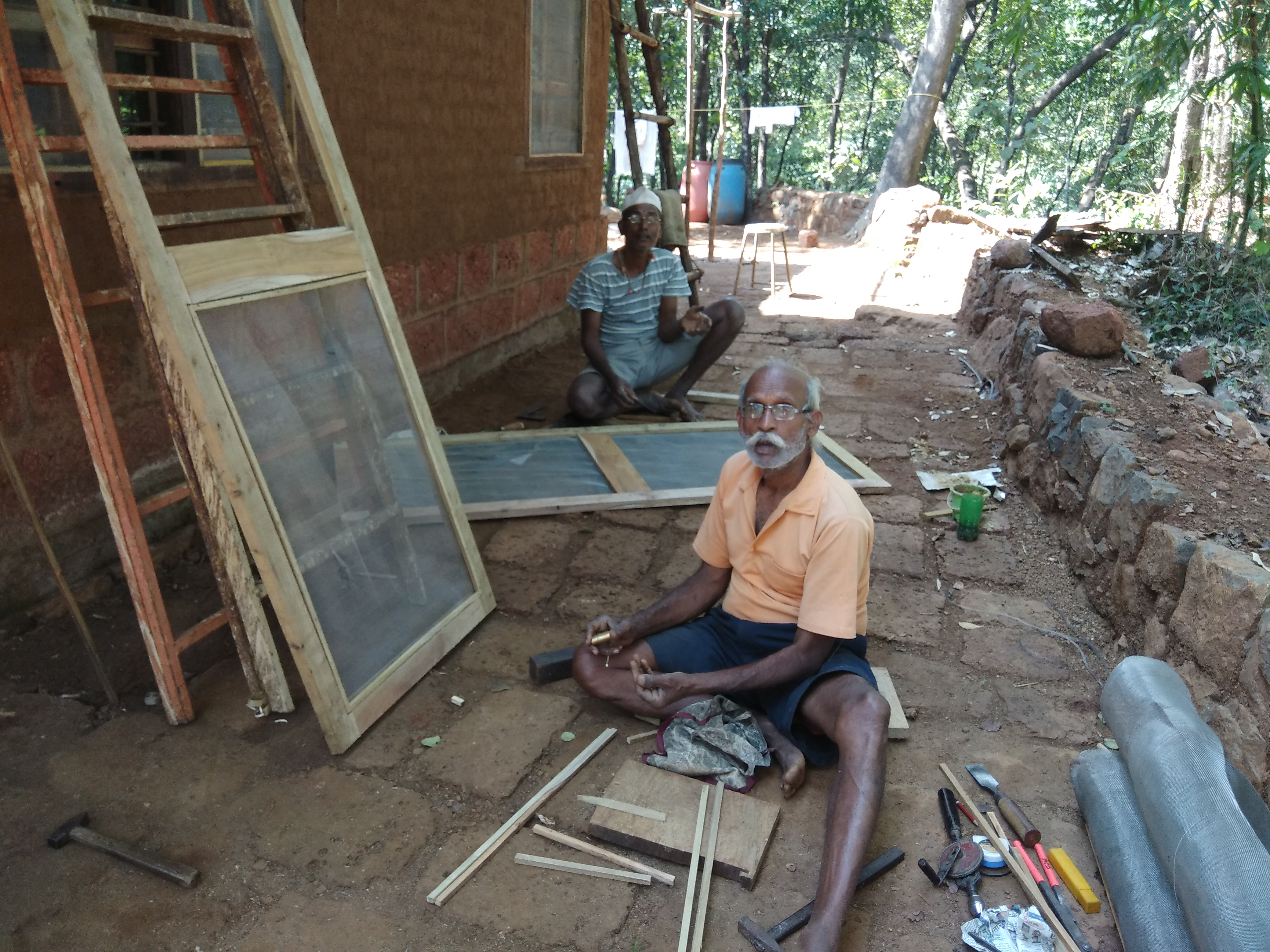 Carpentar work with traditional equipments